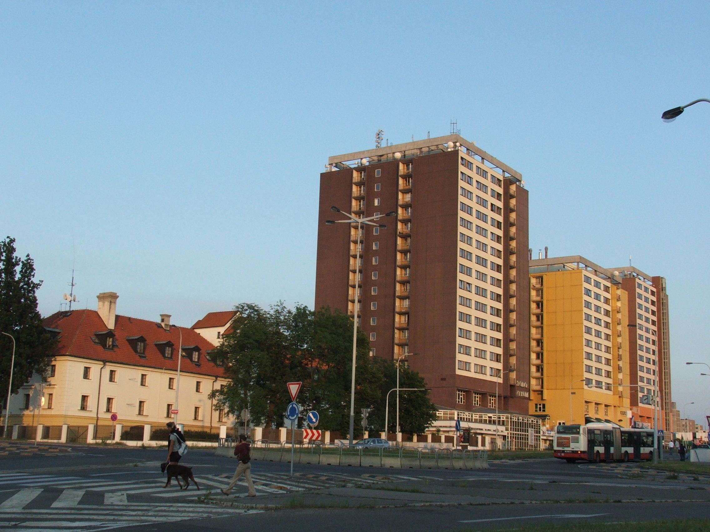 Nové Dvory - Novodvorská street- Former agriculture settlement south of Prague, now part of Prague 4 (Lhotka, Kamýk).